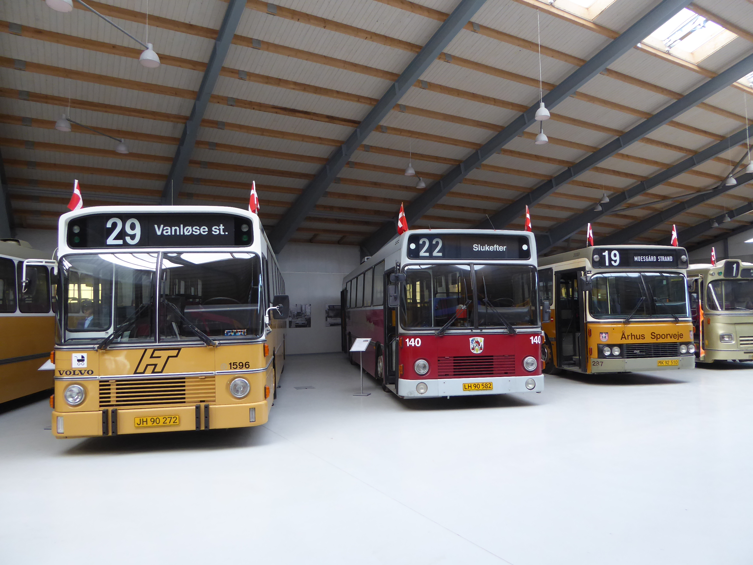 Old buses from Copenhagen, HT 1596 from 1983, from Odense, OB 140 from 1987, and from Aarhus, ÅS 287 from 1991, in Busudstillingshallen at Sporvejsmuseet Skjoldenæsholm in Denmark.